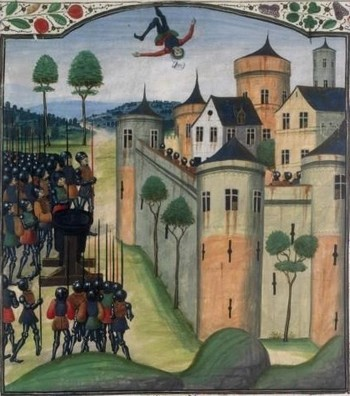 French army besieging the citadel of Auberoche, catapulting an English messenger over the walls